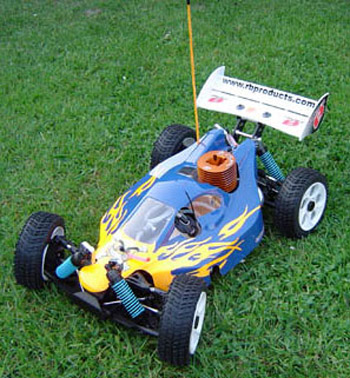 Hyper 8 Radio Controlled Racing buggy.